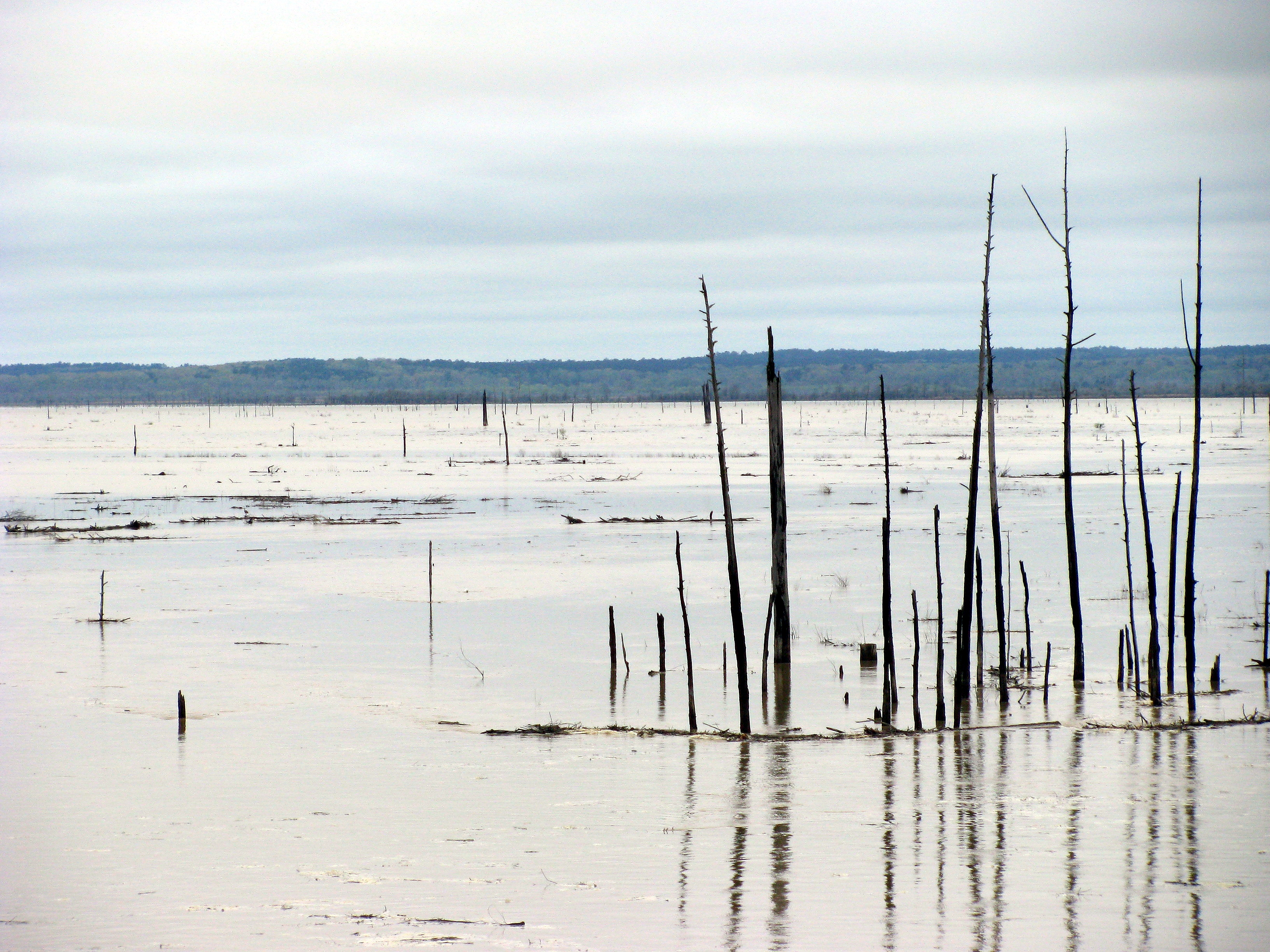 This is the northern end of Grenada Lake in Yalobusha County, Mississippi.